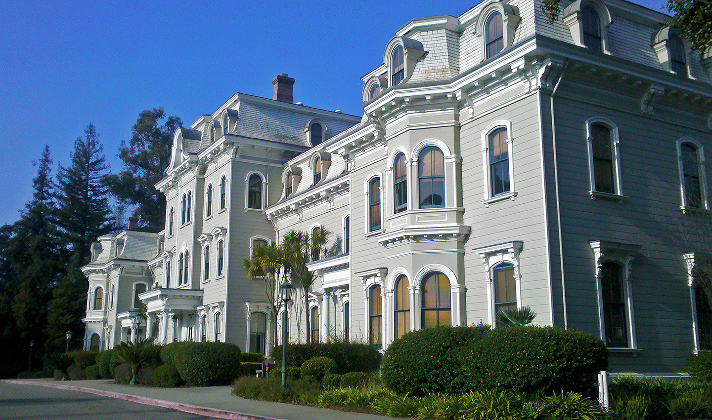 A California Historical Landmark, Mills Hall is centrally located on the Mills College campus. The building currently houses the Office of the President, several administrative offices and academic departments, and classrooms.